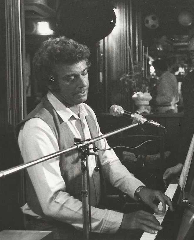 Bengt Jelvefors during the recording of the album Näsvisor (1980)